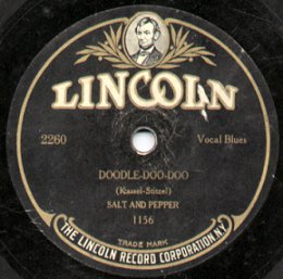 Lincoln Records label, 1920s. "Doodle-Doo-Doo", probably from 1924 when that tune was first a hit. Recording by "Salt and Pepper" (Frank Salt and Jack Culpepper)